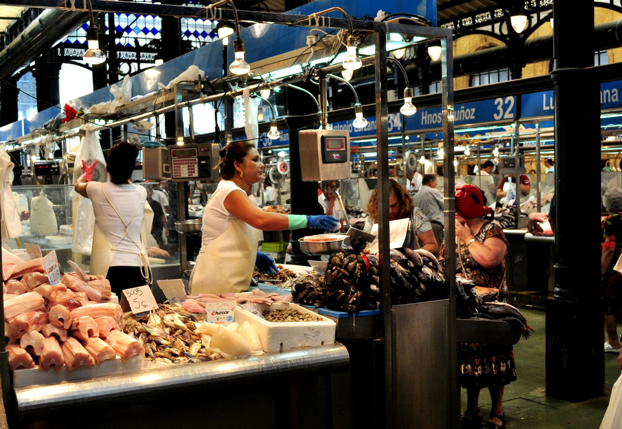 Fisherman Stand, Central Market, Jerez